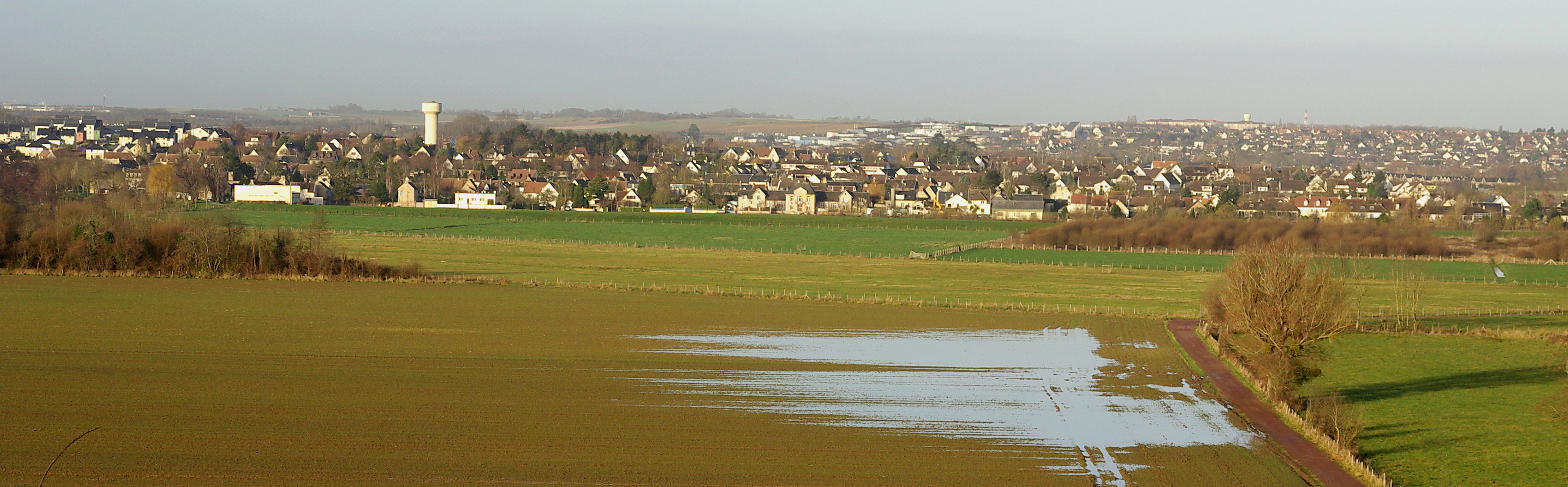 View of Louvigny village and the marshs taken from Fleury-sur-Orne.